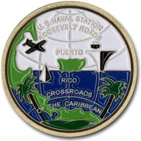 Naval Station RooseveltRoads Seal